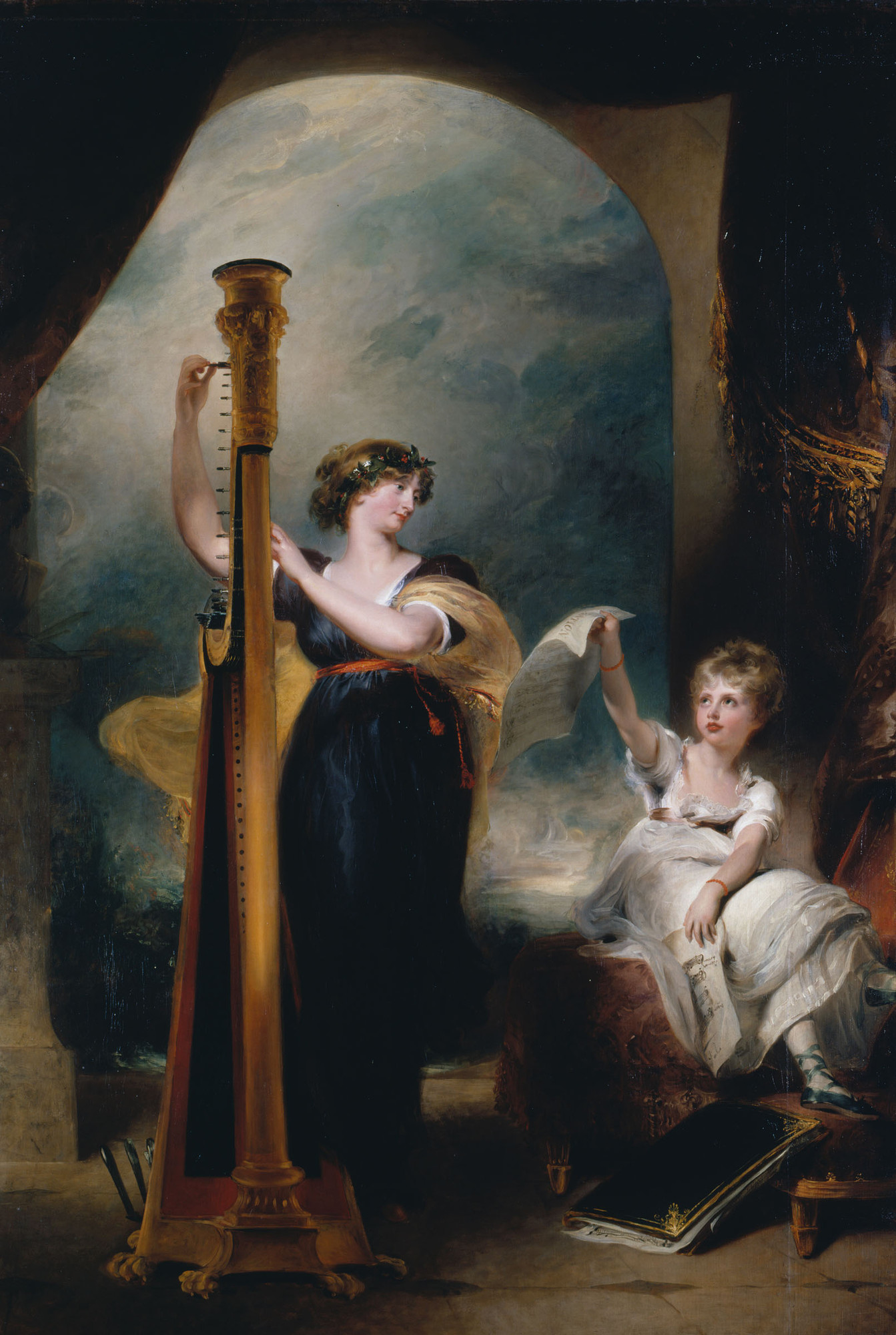 Princess Charlotte with her mother, Caroline of Brunswick, 1801